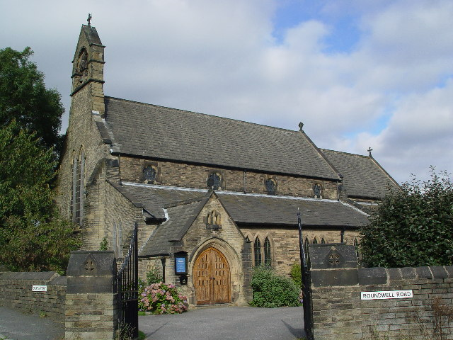 St Barnabas' parish church, Hightown, Liversedge, West Yorkshire, seen from the southwest